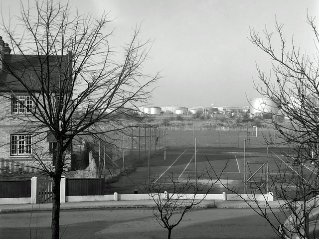 Shell Haven tennis court, early 1960 A view from no 3 Villa of no 6 Cottage, the tennis court between this and no 7 cottage (out of shot), the playing field beyond, and, distantly, tanks etc of London & Thames Haven Oil Wharves Ltd. The larger tanks at right were then fairly new, and belonged to Shell. Contracters' sheds are just visible in front of them. The road was signed by Shell as no 1 Road, but this was not used postally. The car partly visible is a Jowett Javelin.